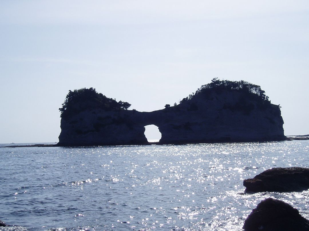 Engetsu Island